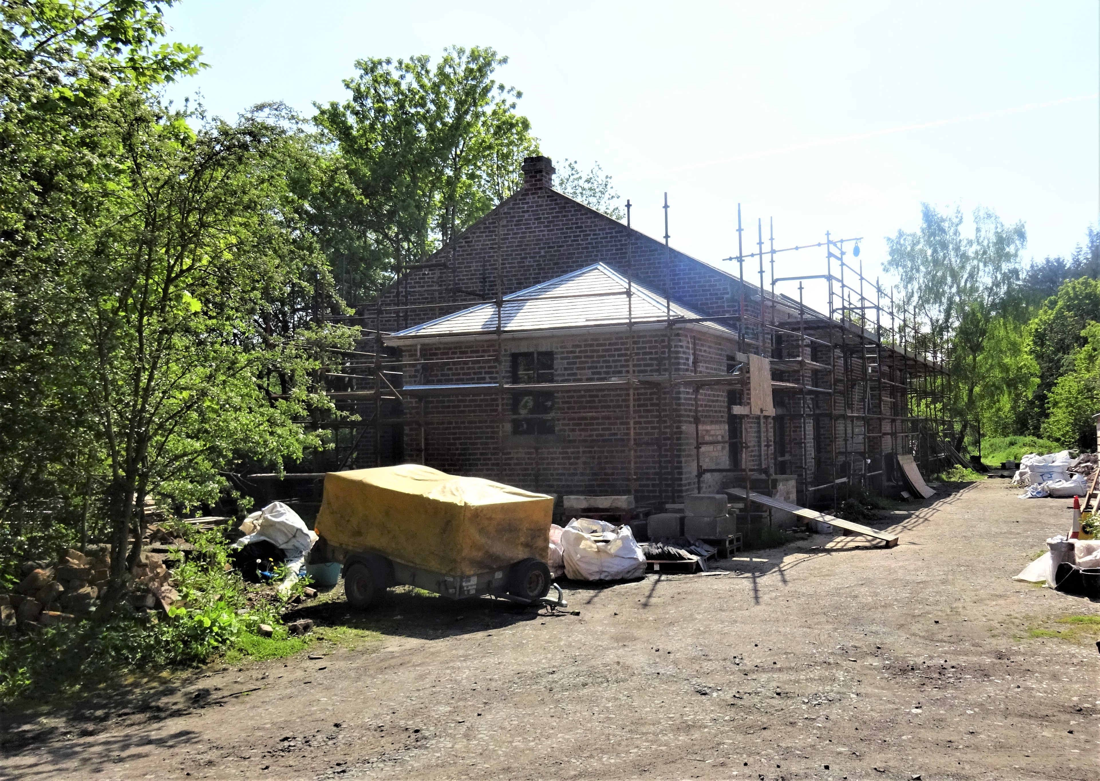 Currie station old goods shed, Balerno Loop Line, Midlothian. Closed in 1968. Undergoing conversion to a private house.